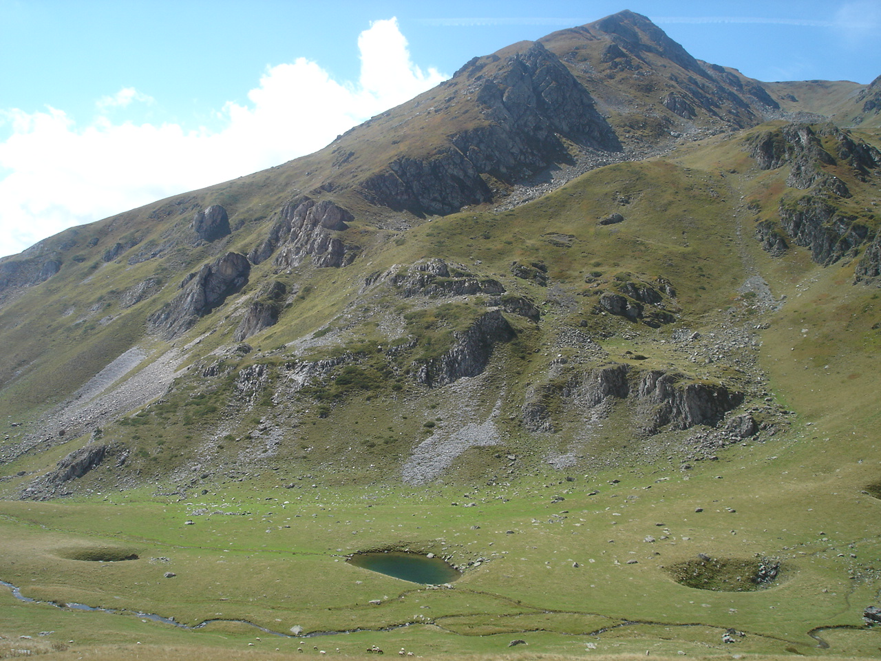 Lower Vraca Lake on Shar Mountain, Macedonia